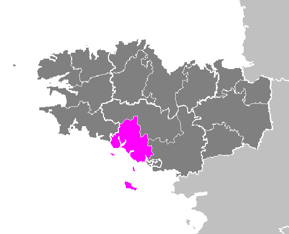 Maps of arrondissements and cantons of France: Arrondissement de Lorient.PNG